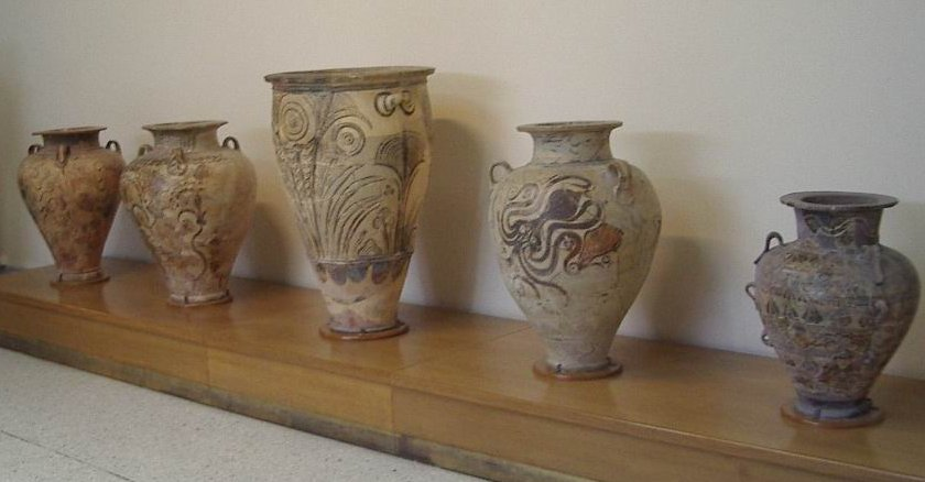 Archaeological Museum of Herakleion, Hall IX. Late minoan amphorae, from left to right: Amphora from Tomb of the Double Axes (LM II b) showing Haledon with Ten Tentacles. Amphora from Knossos (LM II) shows papyruses in rocky terrain. Amphora from Staircase Landing of Royal Villa with Papyrus Decoration in Painted Relief. Amphora from North-West Palace Border (LM II b), shows an octopus. Amphora from Tylissos (LM I b) with Beaded Festoons and Pendant Crocus Flowers combined with Zones of Marine Motives.